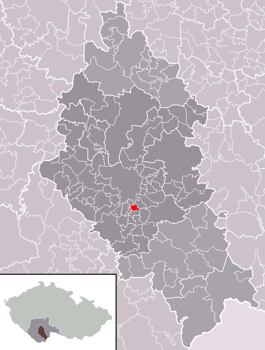 Location of Doubravice municipality within České Budějovice District and administrative area of České Budějovice as a Municipality with Extended Competence.